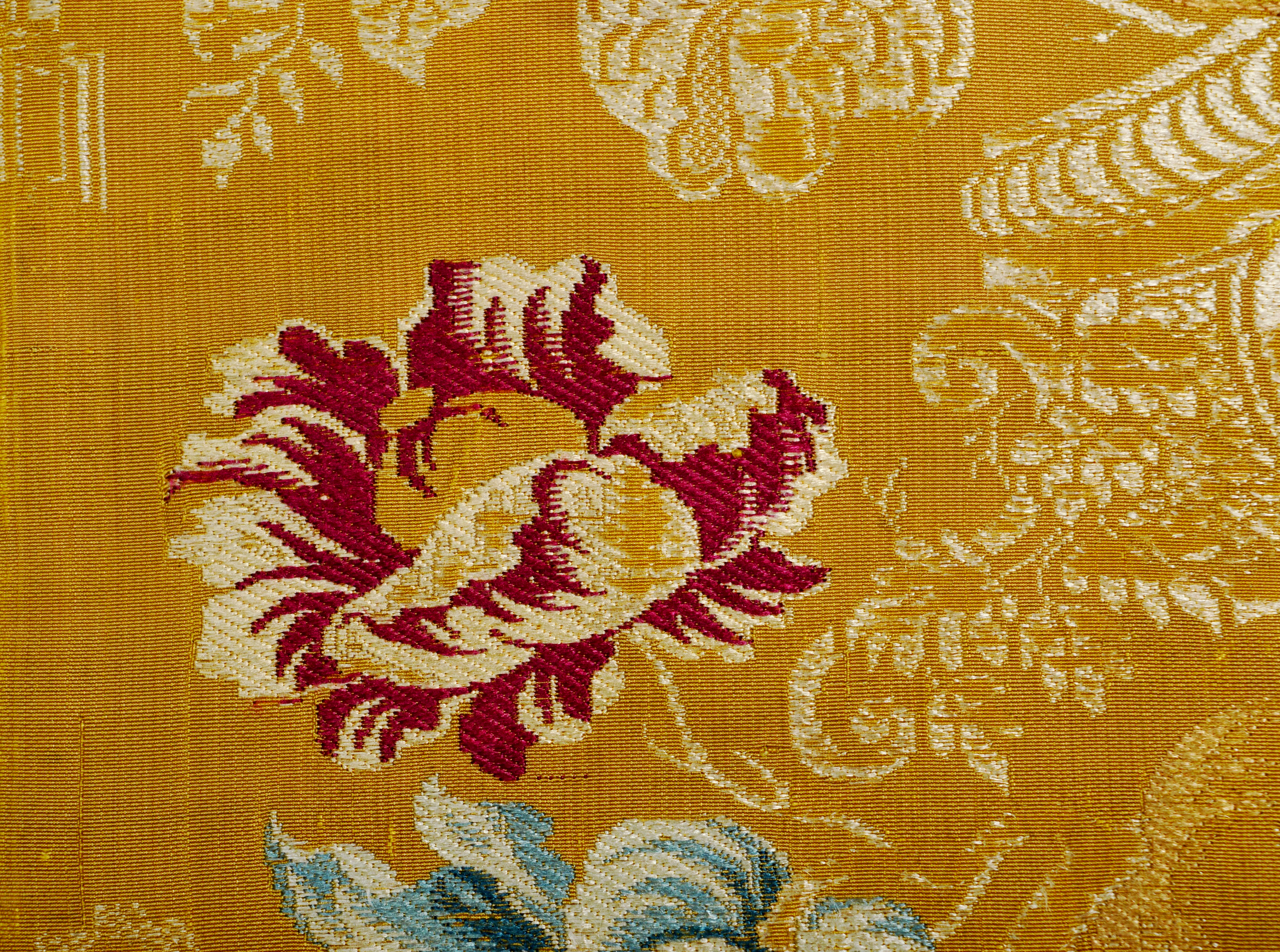 Embroidery on a XIXth century corset, Podhale. Corset in the collection of Tatra Museum in Zakopane.